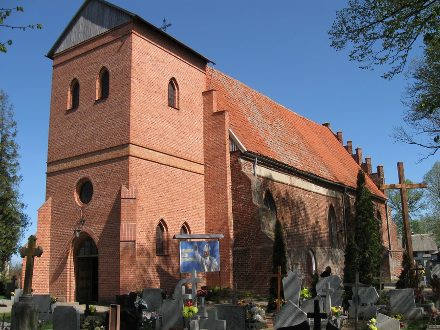 Church in Niedźwiedzica